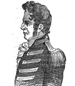 American soldier and politician, Eleazer Wheelock Ripley (1782–1839)